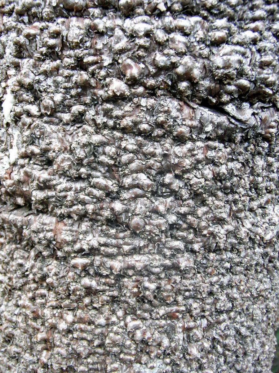 Wollemi Pine, bark at Mount Annan Botanic Gardens, Australia (labeled)